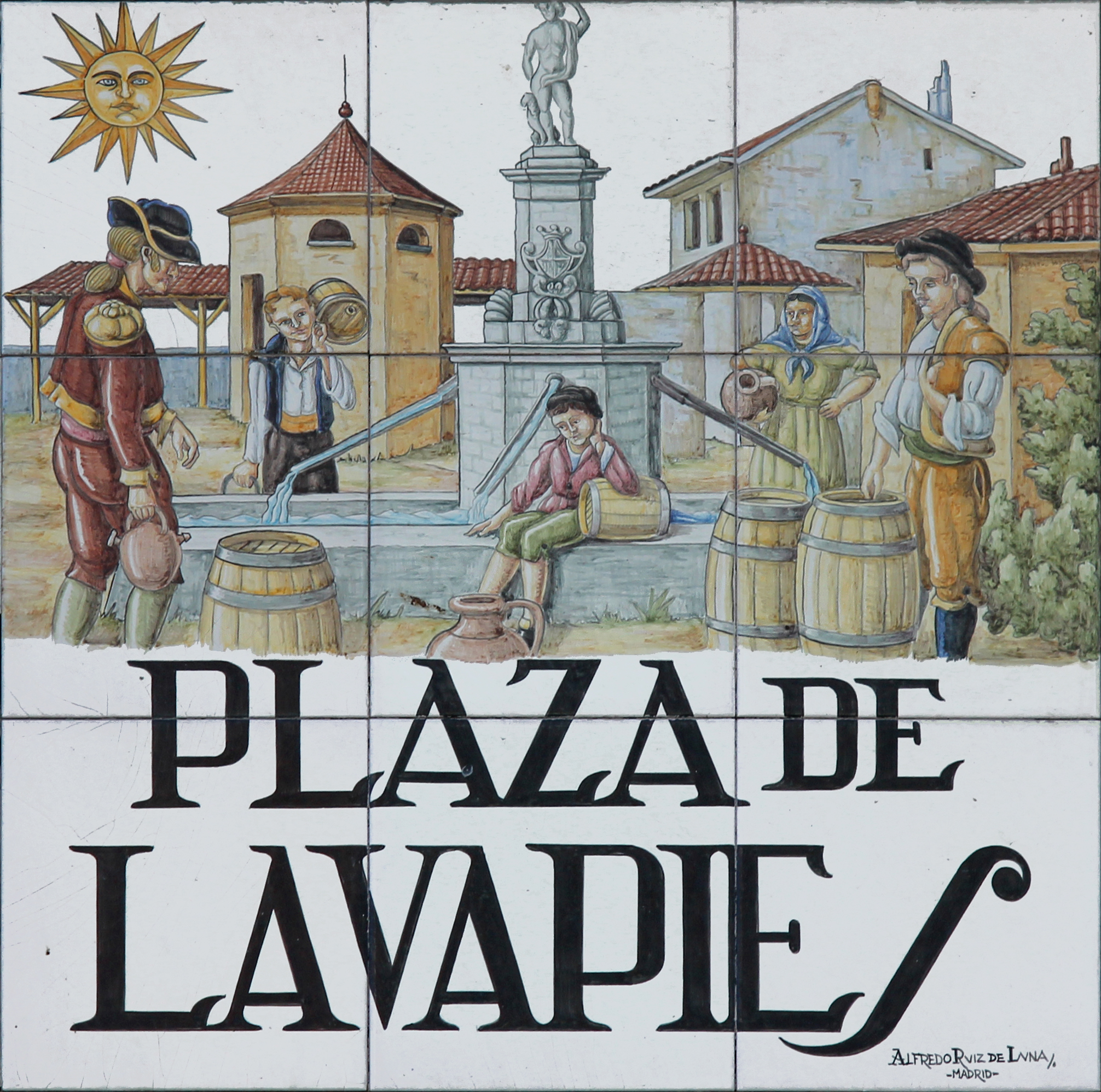 Sign of Plaza de Lavapiés (square) in Madrid (Spain).